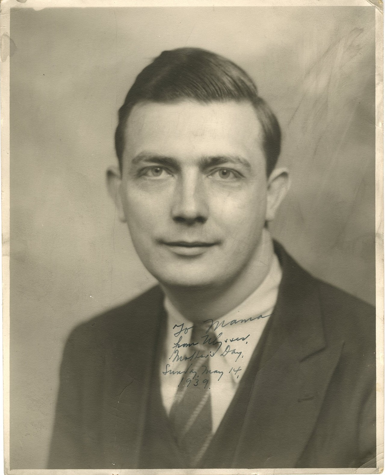 Photo portrait of recording history columnist Ulysses "Jim" Walsh